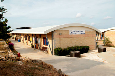 Picture of the front International School of Aruba